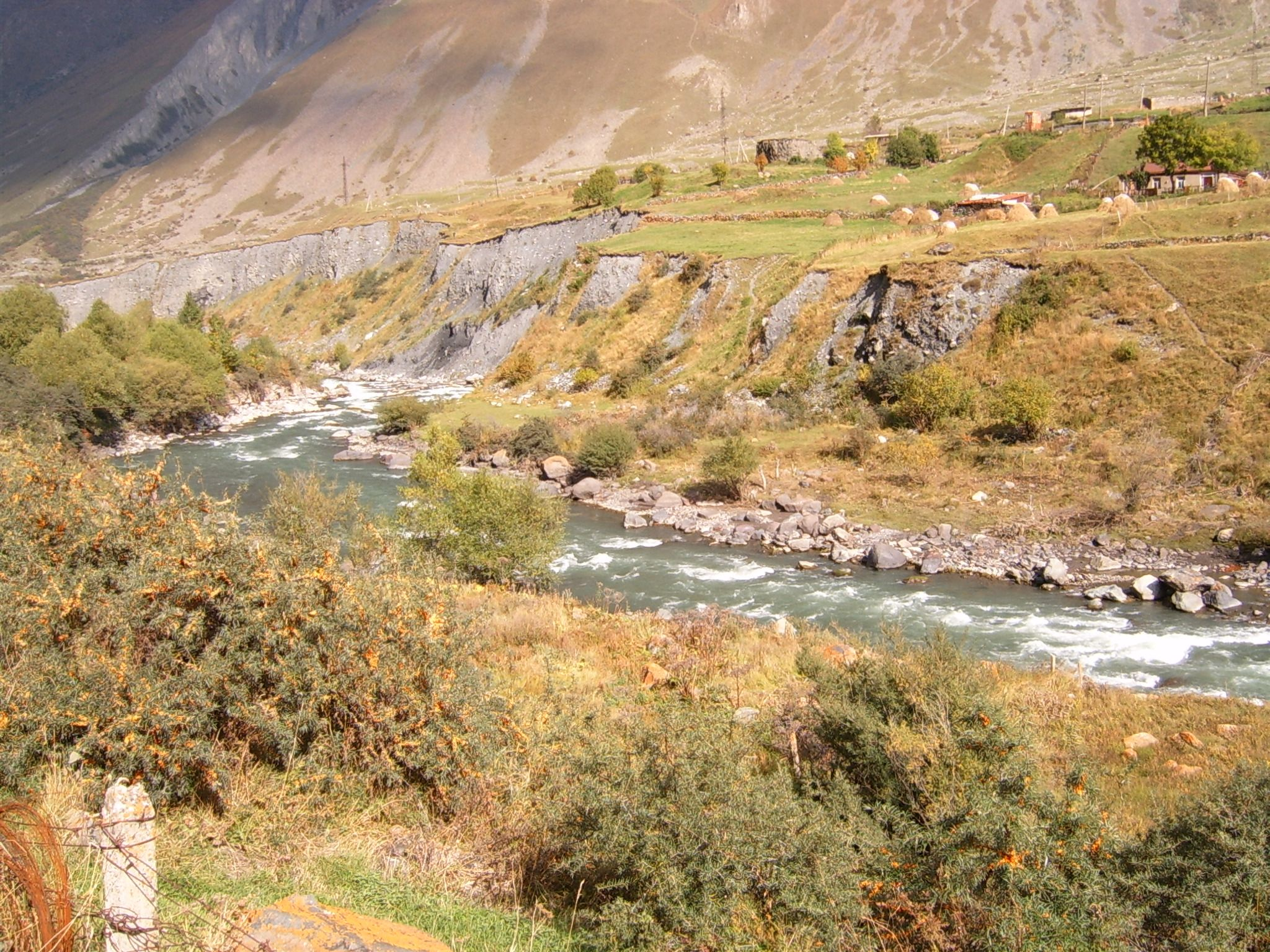 Upper course of the Terek river, Northern Georgia